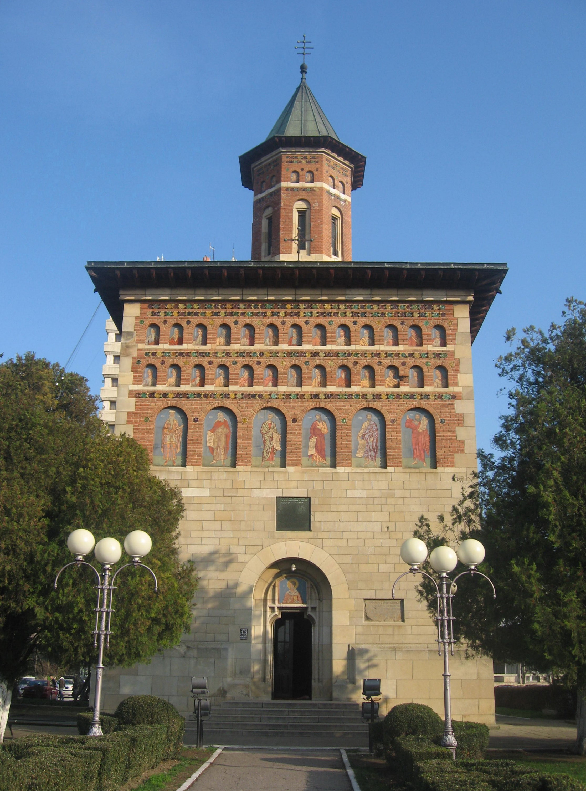 Biserica Sf. Nicolae Domnesc din Iași, România